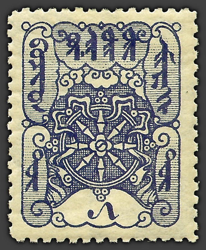 A postage stamp from Tannu Tuva from 1926. See Postage stamps and postal history of Tannu Tuva.